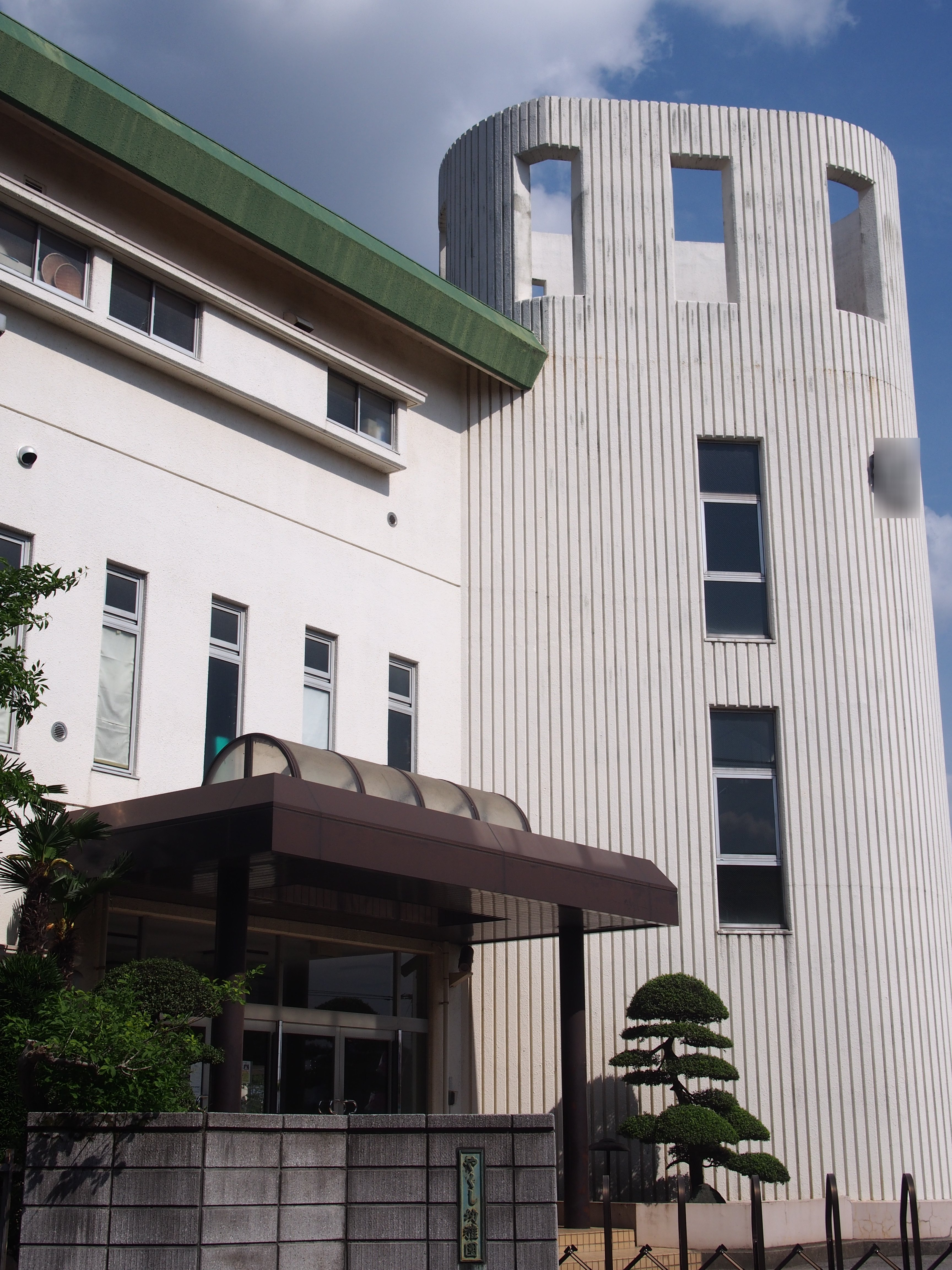 A photo of the entrance of Yakushi Kindergarten,Higashiyotsugi,Katsushika-ku,Tokyo,Japan.